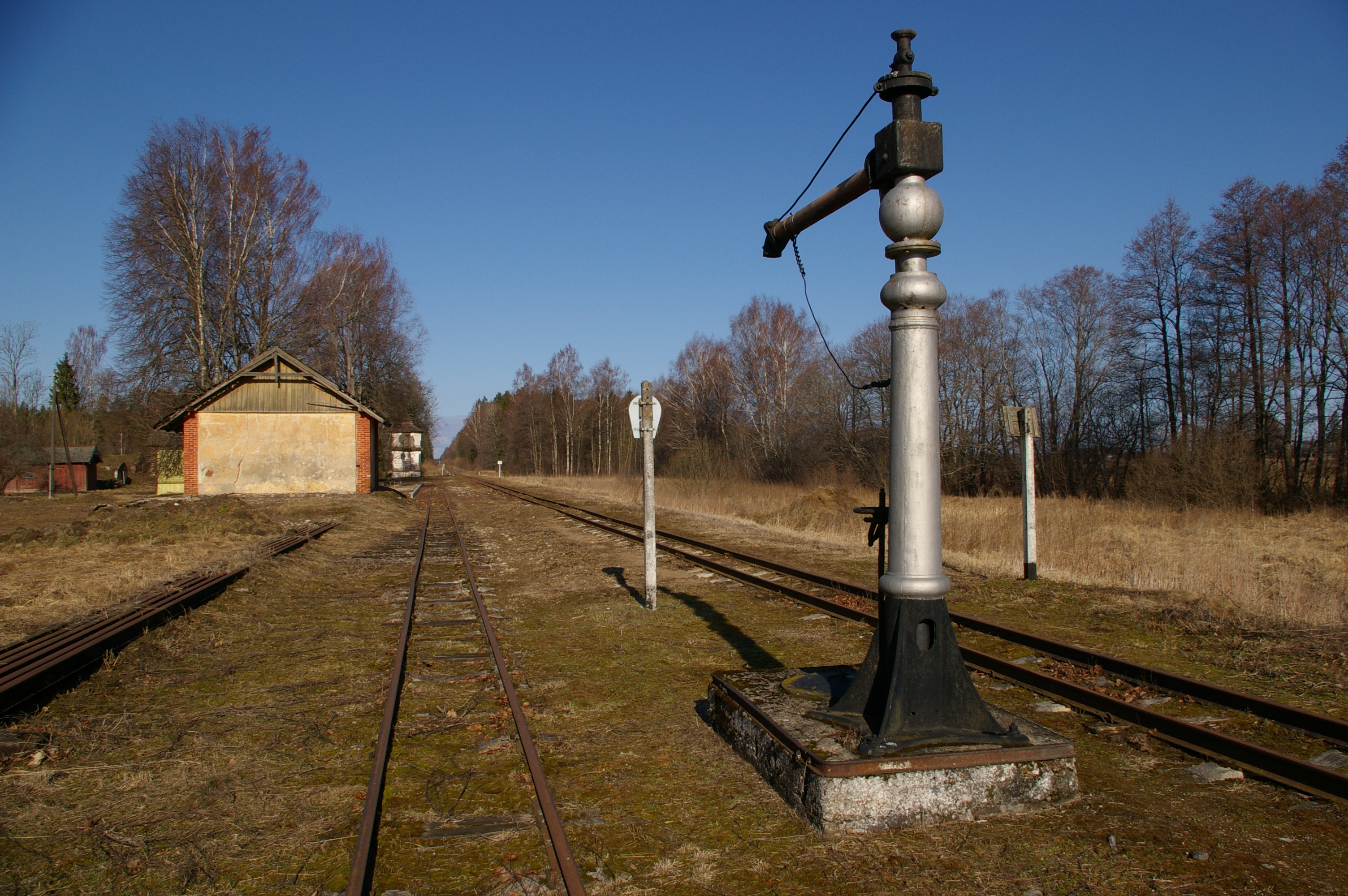 Raguvėlė train station, Panevėžio district, Lithuania.